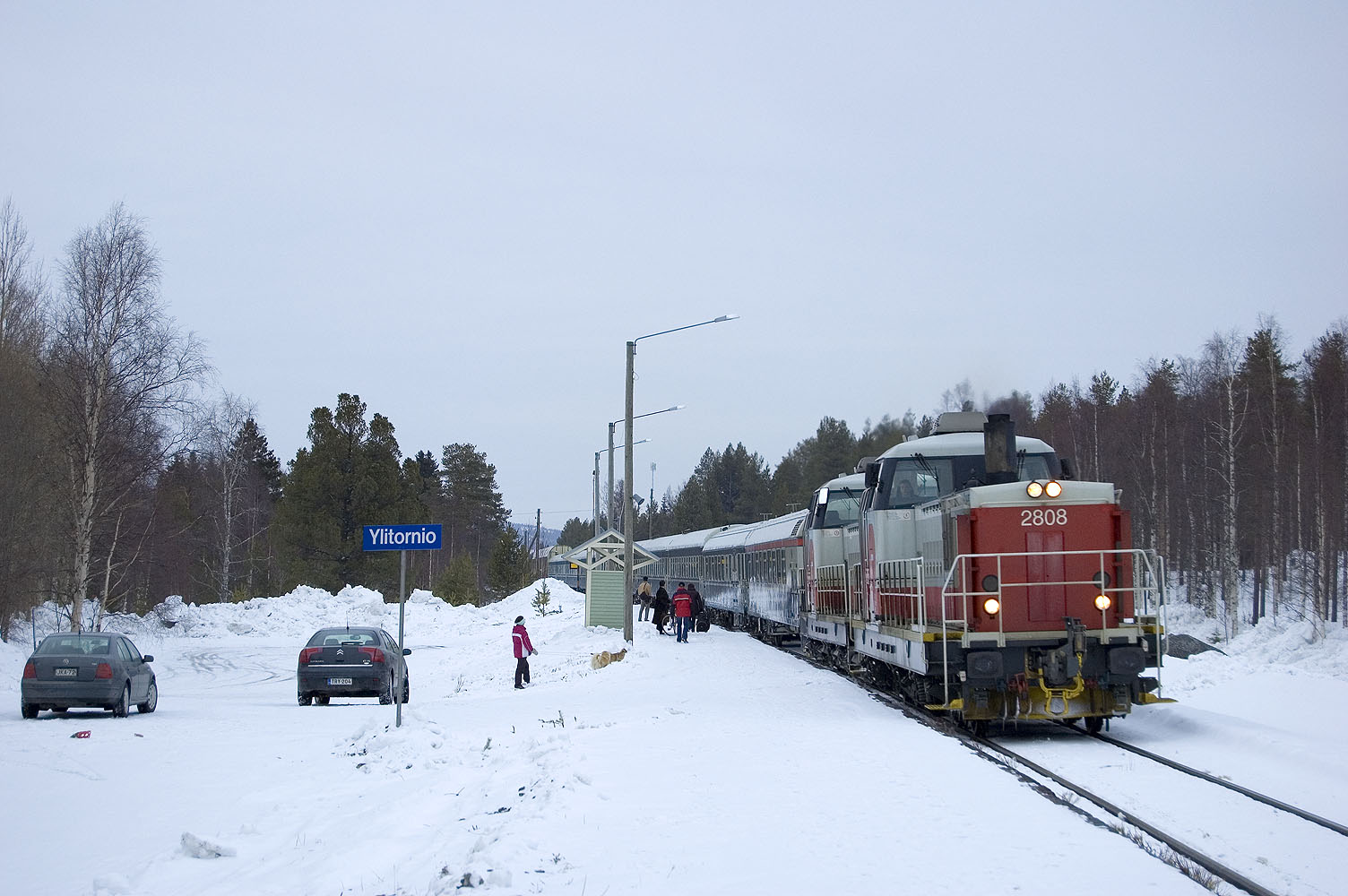 Kolari–Helsinki overnight express train 270 arriving at Ylitornio station, Finland, with two class Dr16 diesel-electric locomotives in the lead.